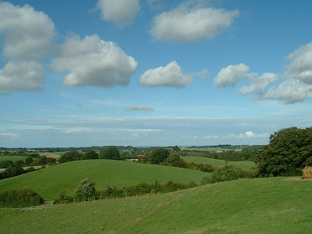 a view from the 169 m high Bungsberg direction Denmark (north)